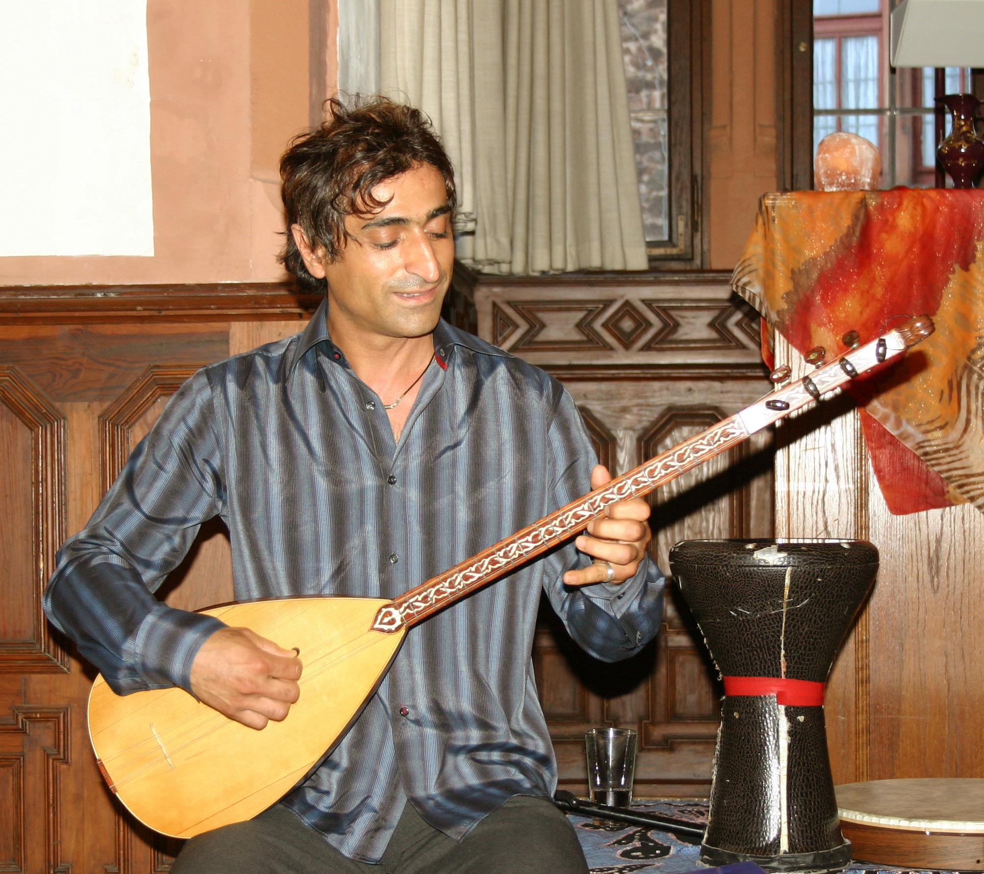 Mustafa Erdogan (EL DINO), Berlin, with Bağlama